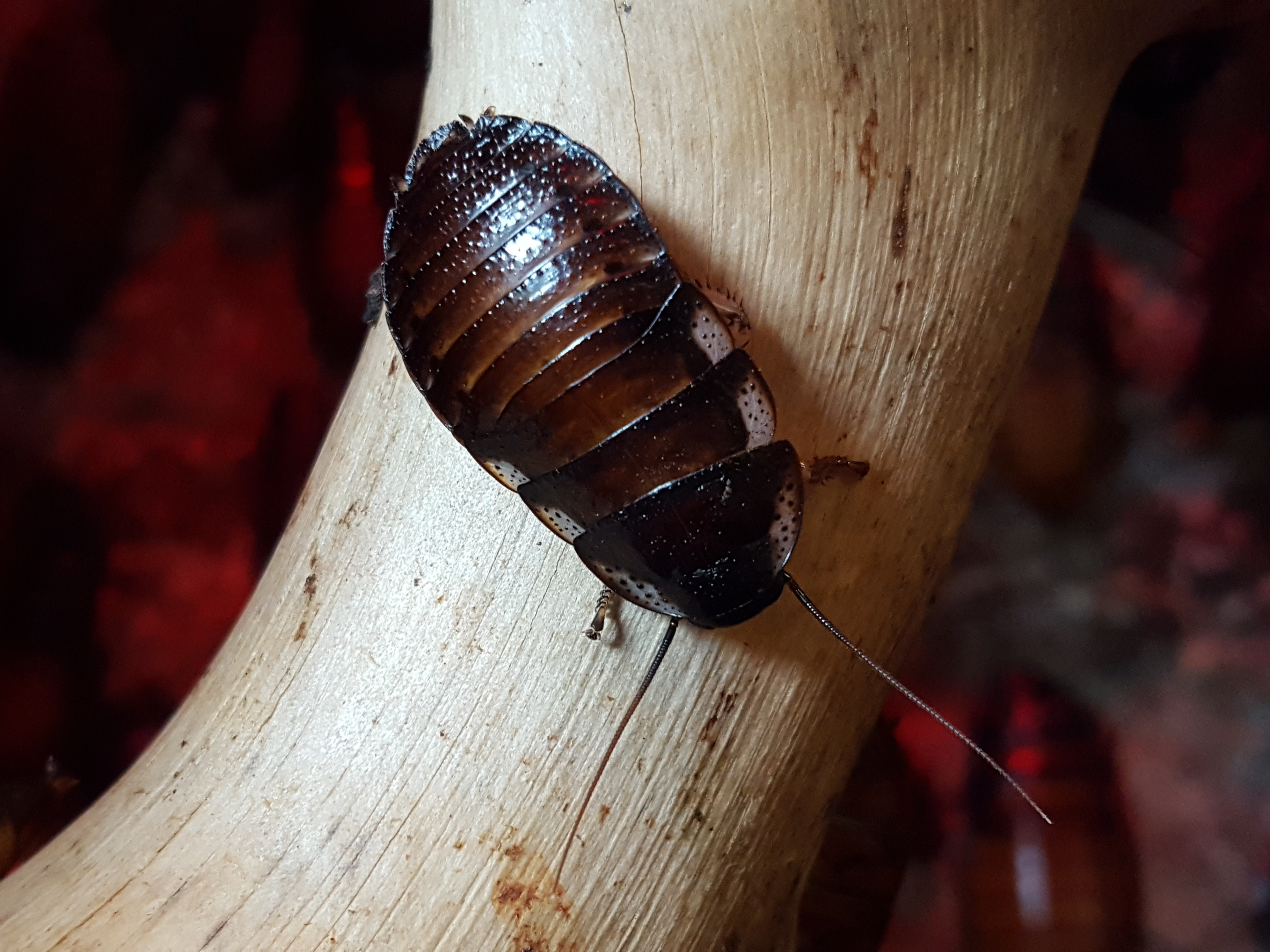 Gromphadorhina portentosa at Bydgoszcz Zoo